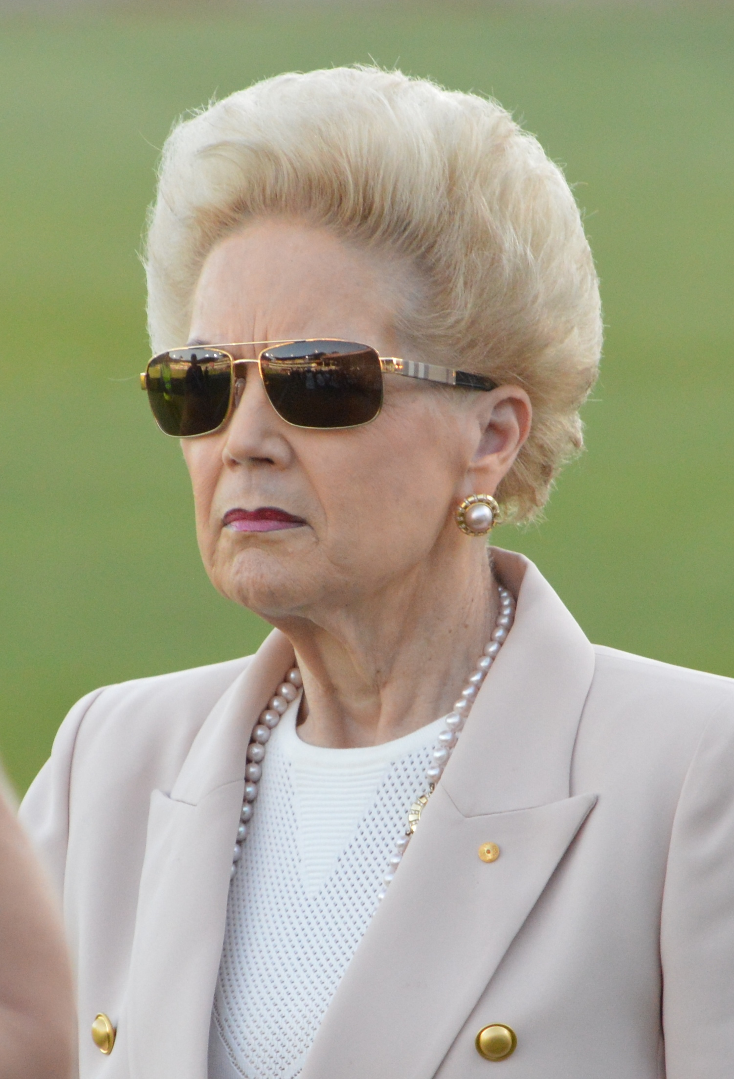 Susan Alberti in attendance at the inaugural AFL Women's match in February 2017.